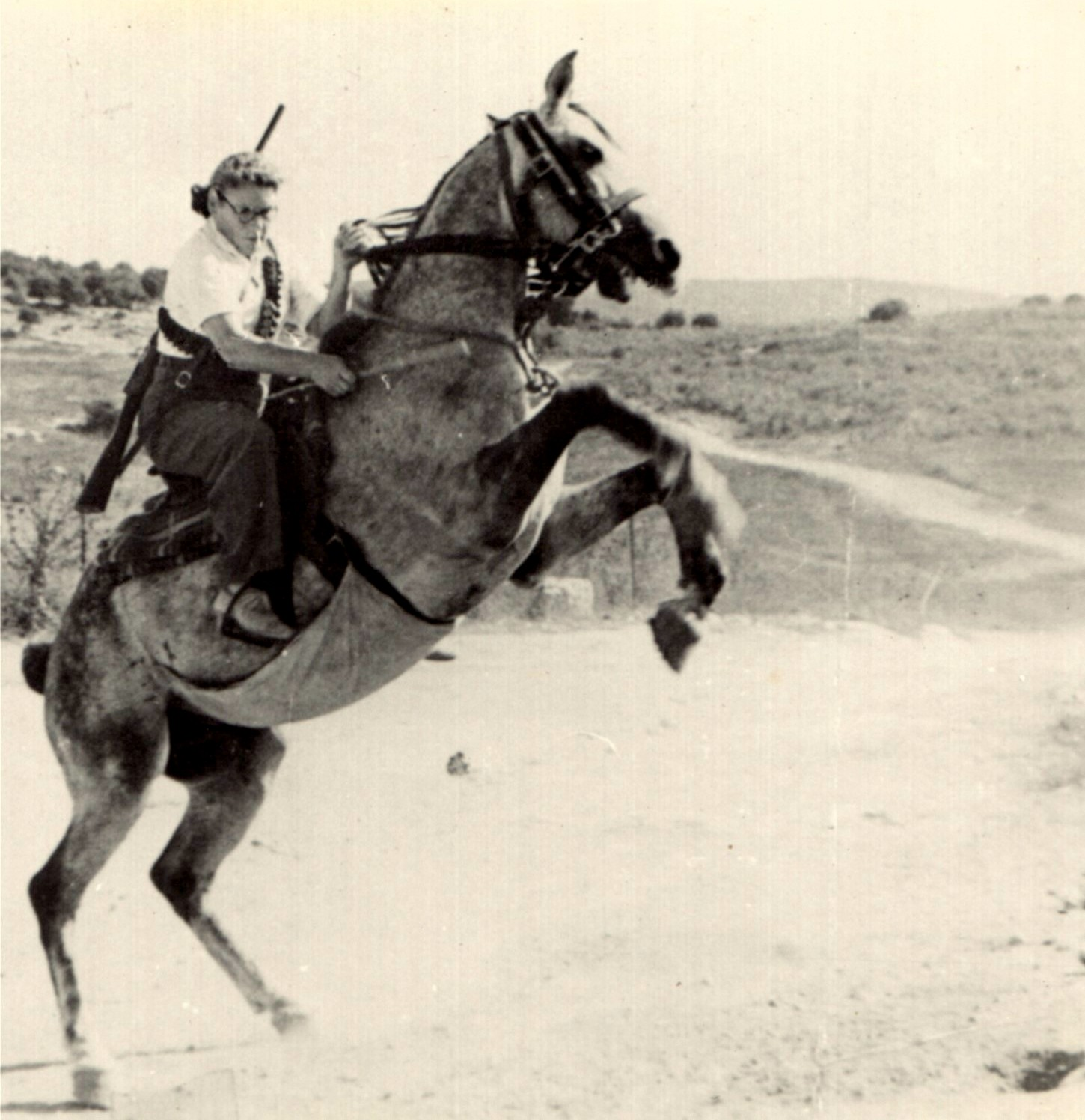 Tziporah Zeid, wife of Alexander Zeid (a founder of the Jewish defense organizations Bar Giora and HaShomer, and a prominent figure of the Second Aliyah), riding a horse